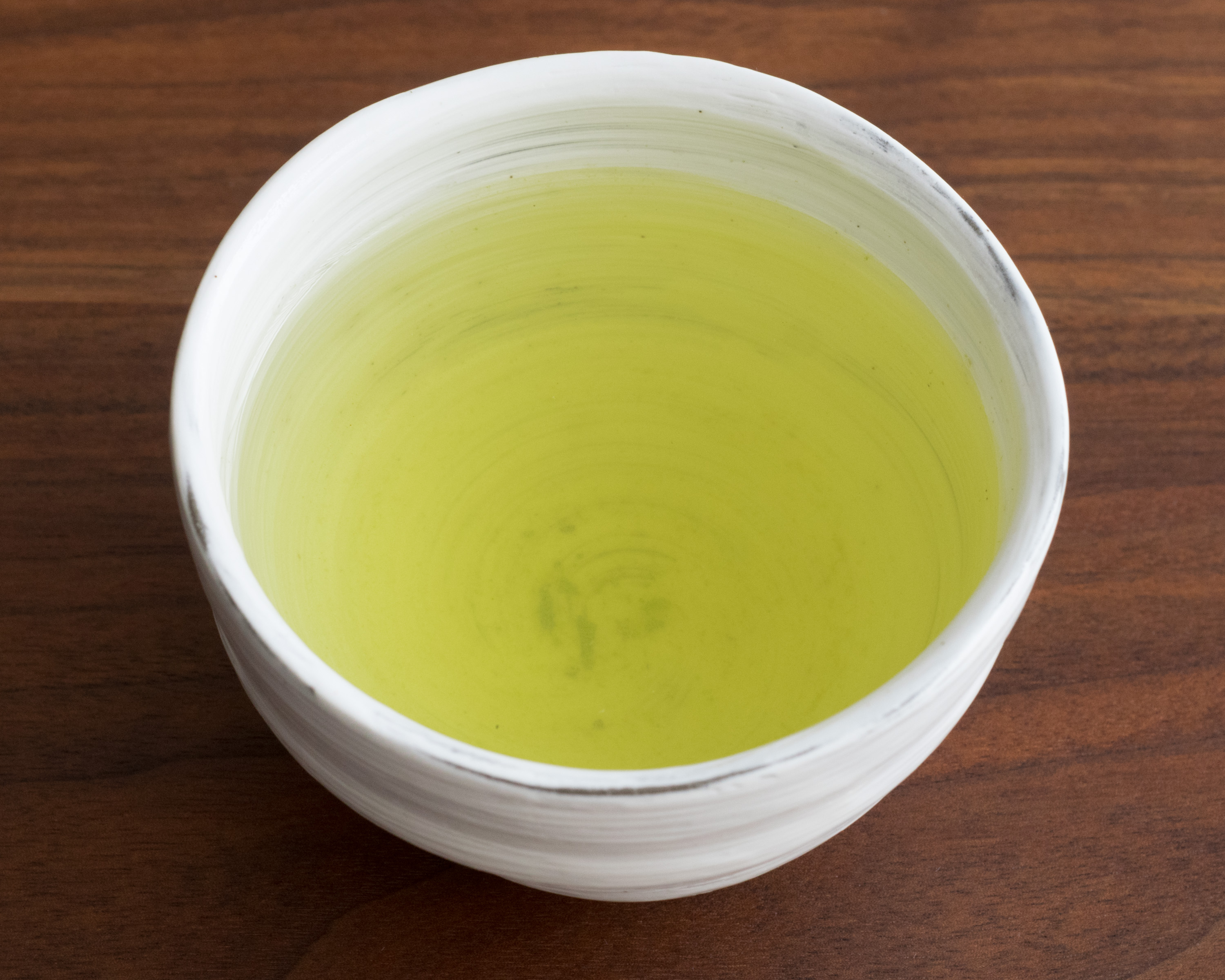 Lightly steamed sencha from the first harvest (shincha) of 2018. Grown in Uji, this tea was made using the Yabukita variety of the tea plant. This particular tea was distributed by the Tsuen tea shop in Uji. The first infusion of the tea is shown here in a contemporary white ceramic Arita-yaki cup, made in the wabi-sabi style.